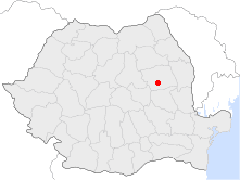 Location of Onești in Romania.